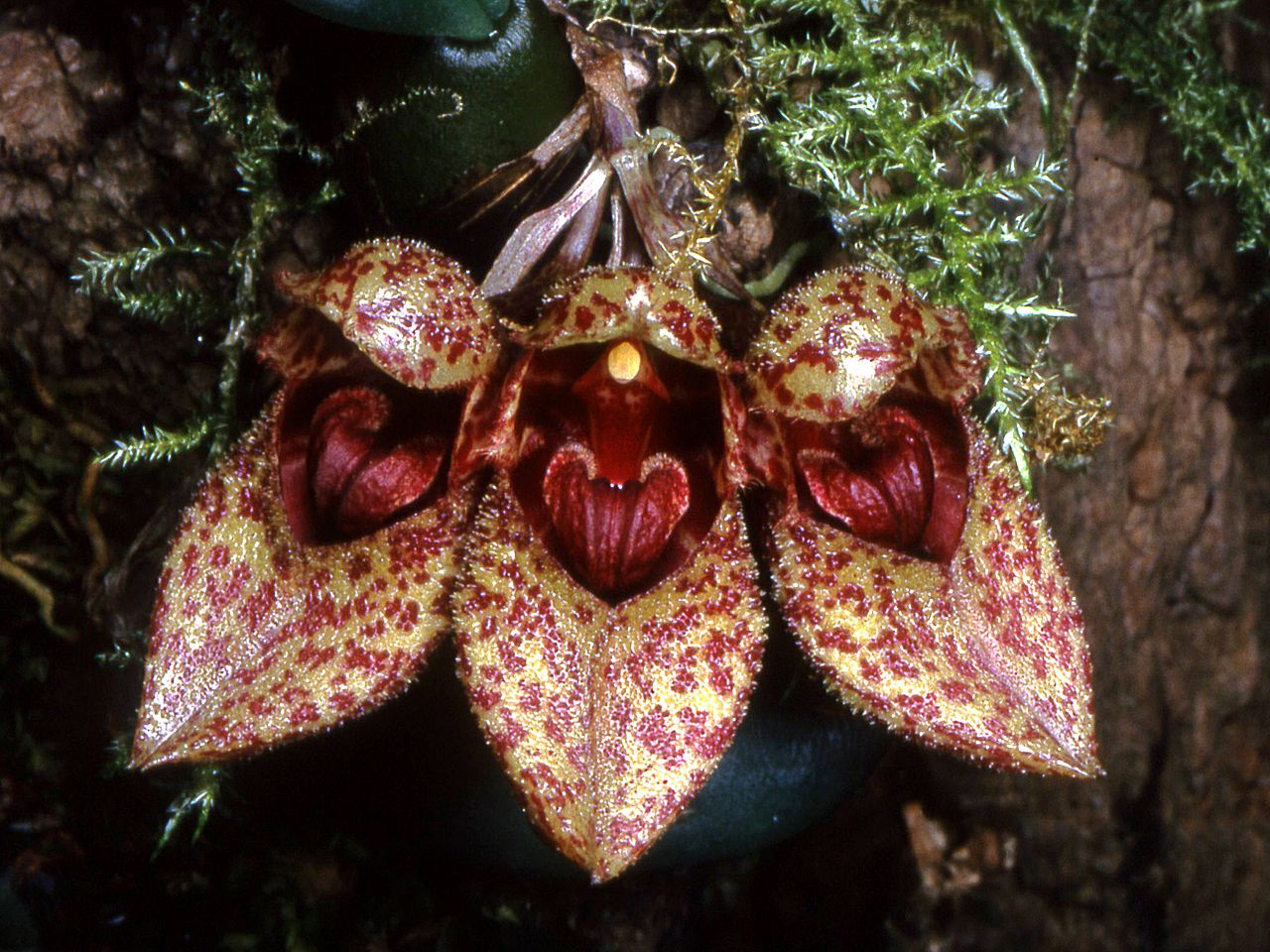 Bulbophyllum frostii